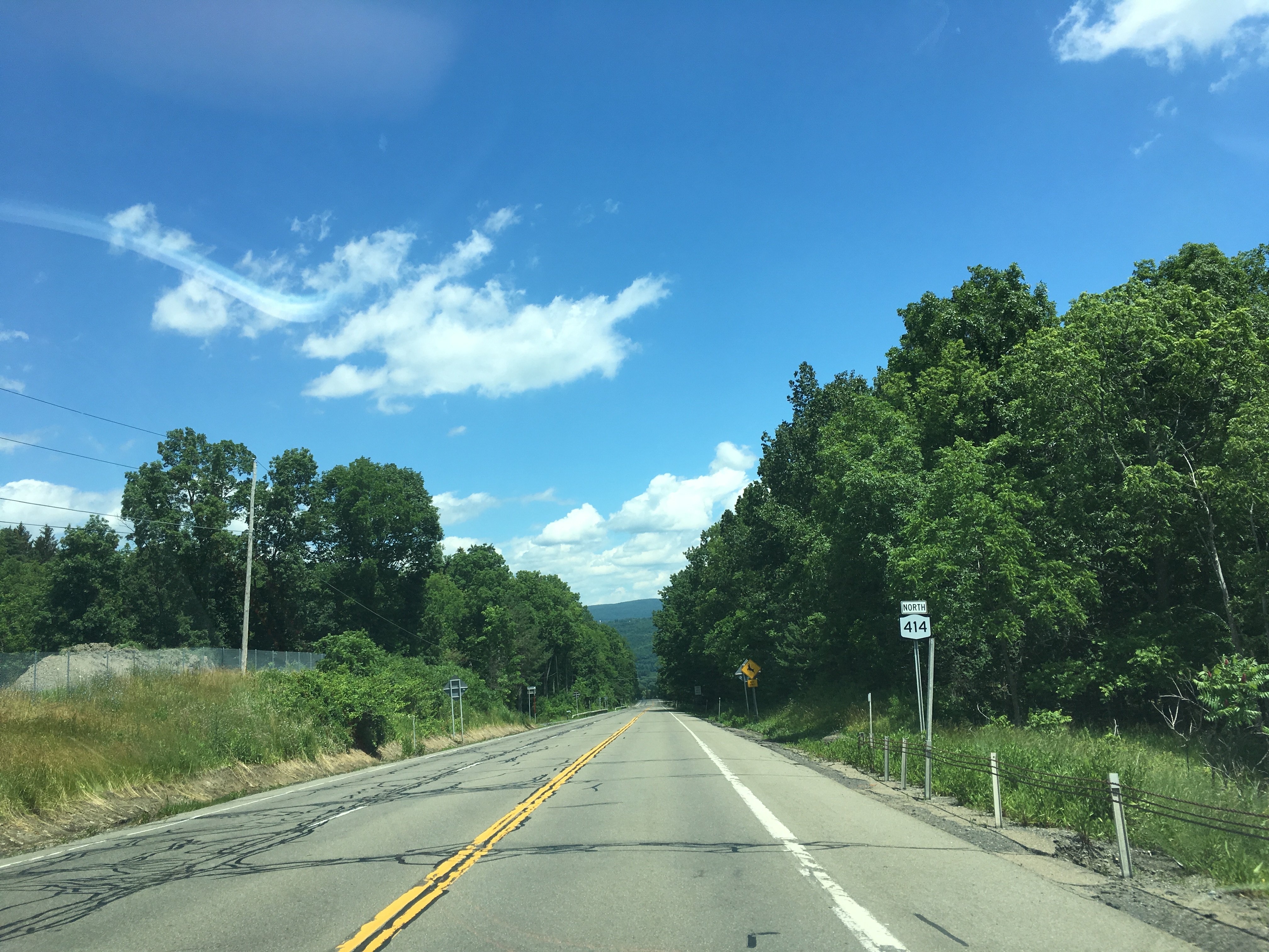 New York State Route 414 northbound past the intersection with County Route 16 south of Watkins Glen.